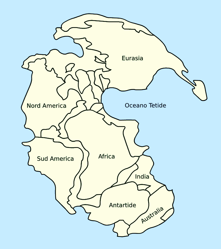 This is the Italian version of the file Pangaea continents.png downloaded from Commons